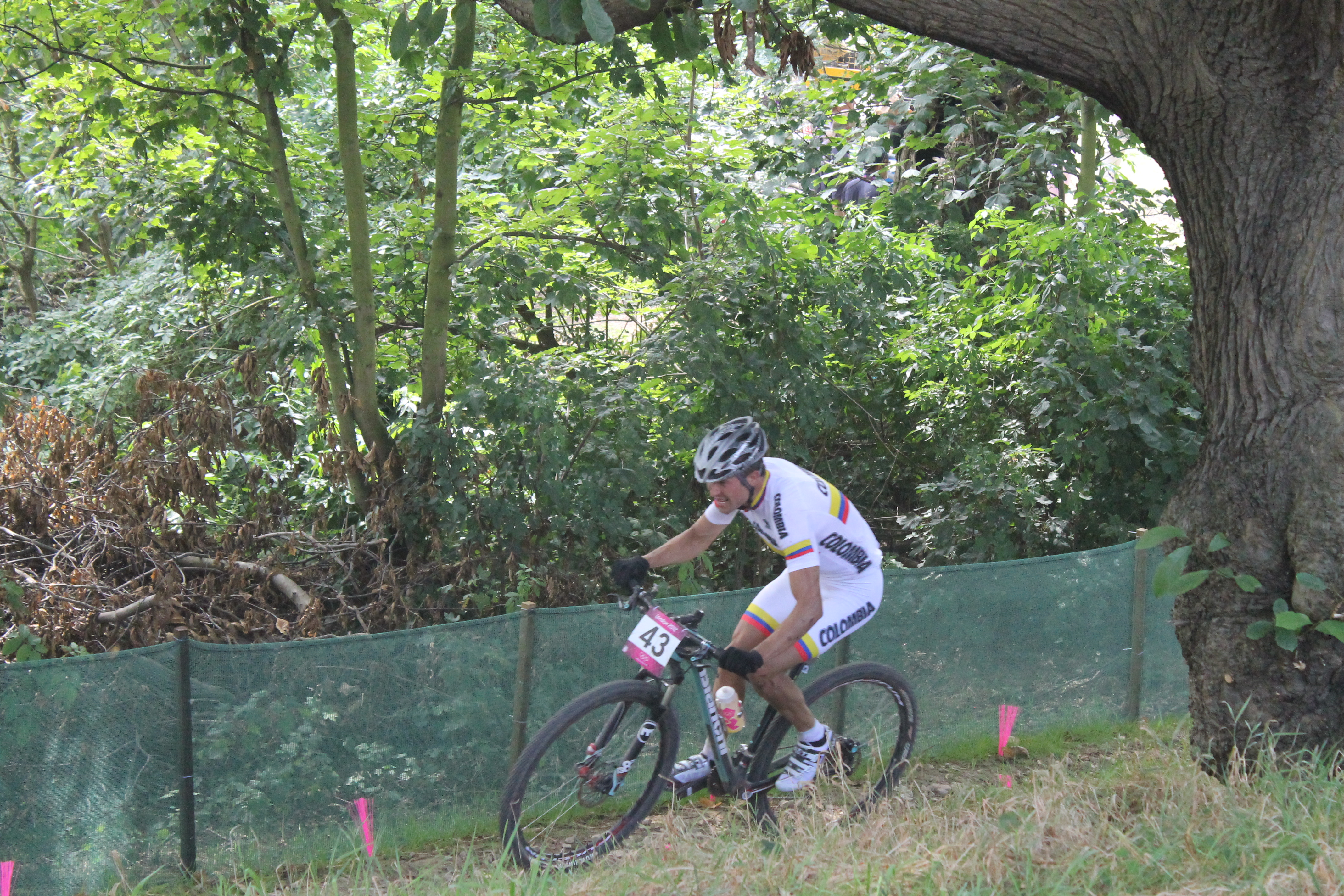 Cycling at the 2012 Summer Olympics – Men's cross-country Hector Páez (43) (COL) IMG_4151